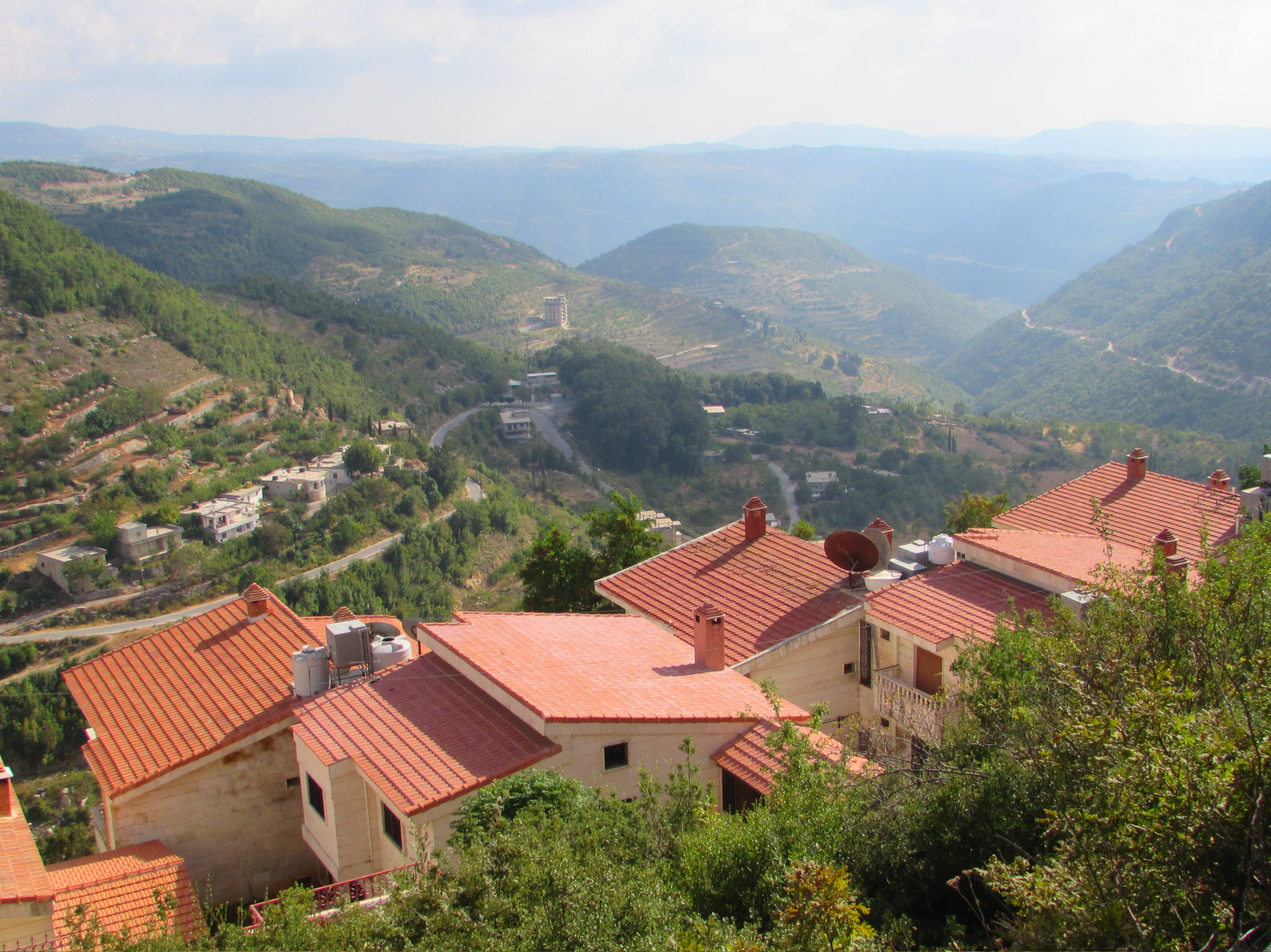 Slinfah's mountains and houses in Latakia, Syria.